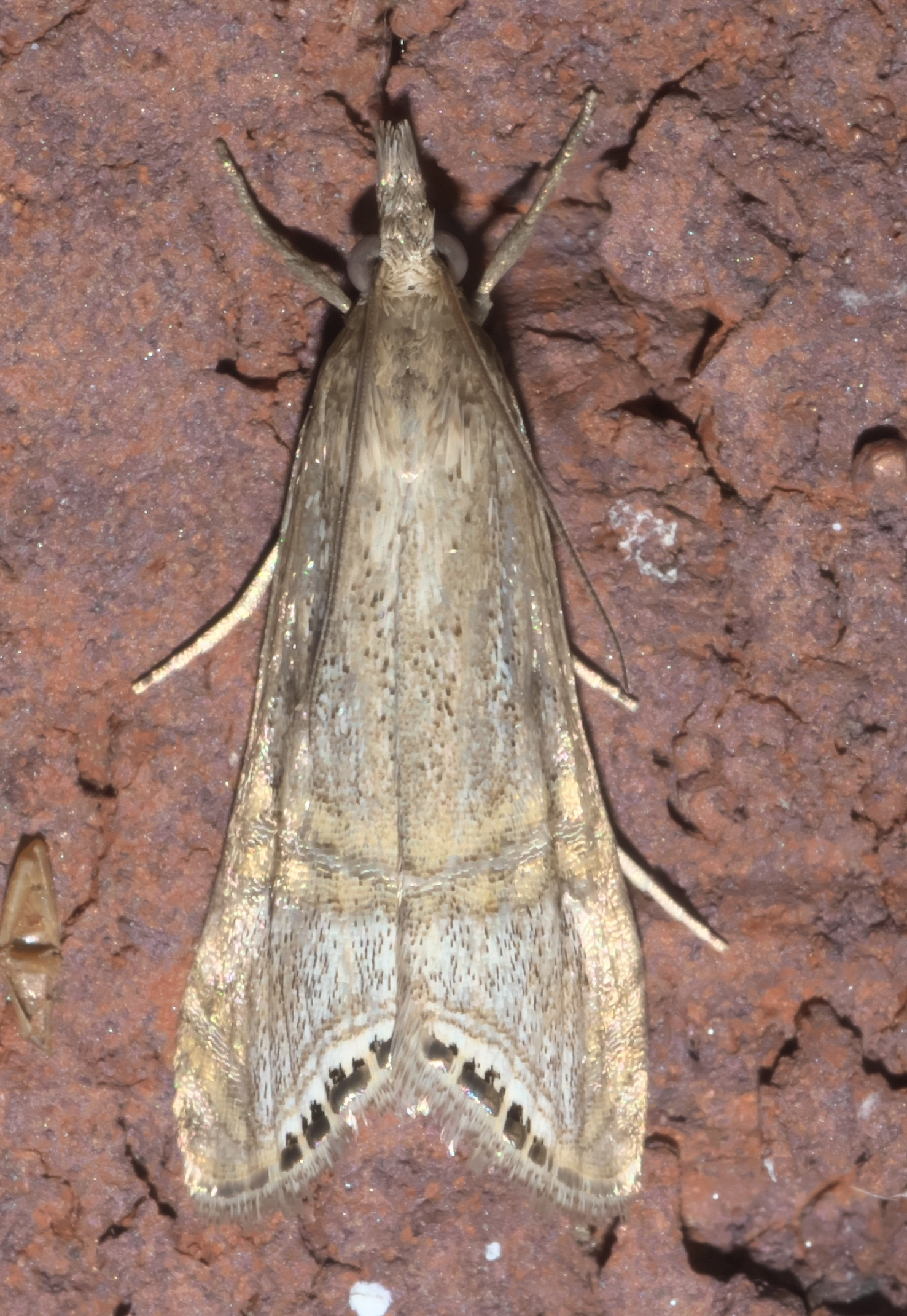 Euchromius ocellea, belted grass-veneer, ID Confidence: 86